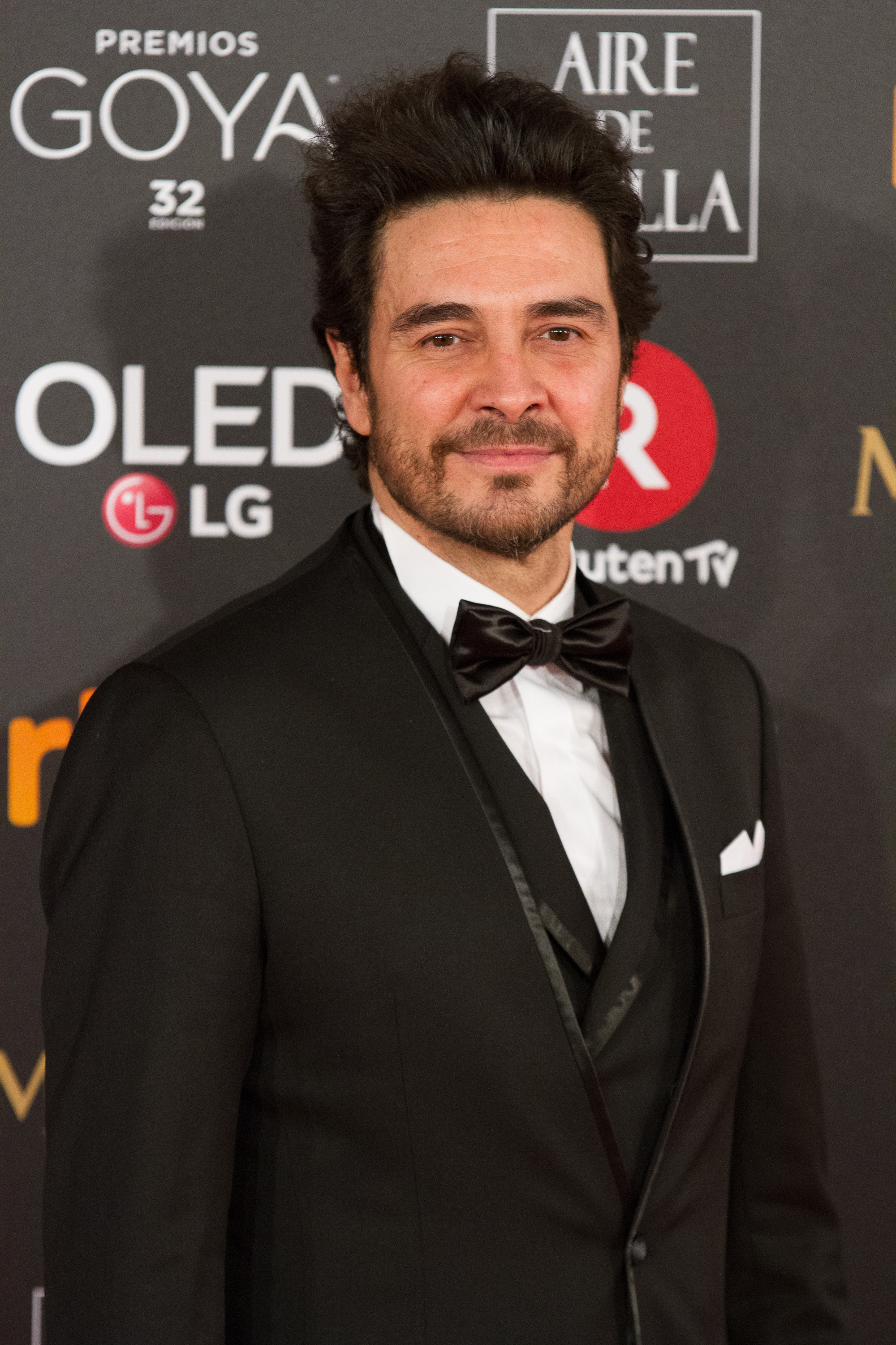 32nd Goya Awards, 2018.